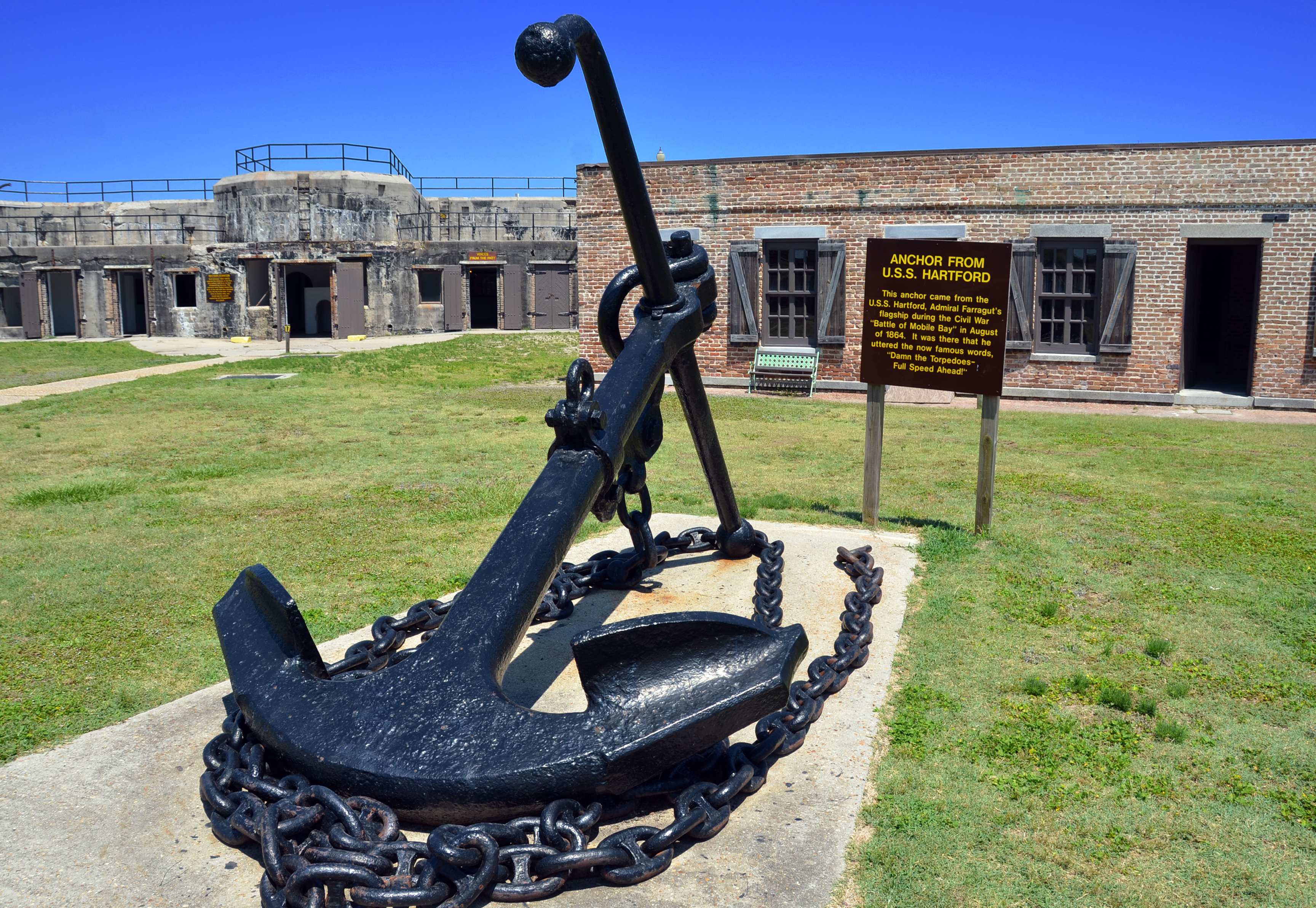 Anchor for USS Hartford located within Fort Gaines, Dauphin Island, Alabama, United States.